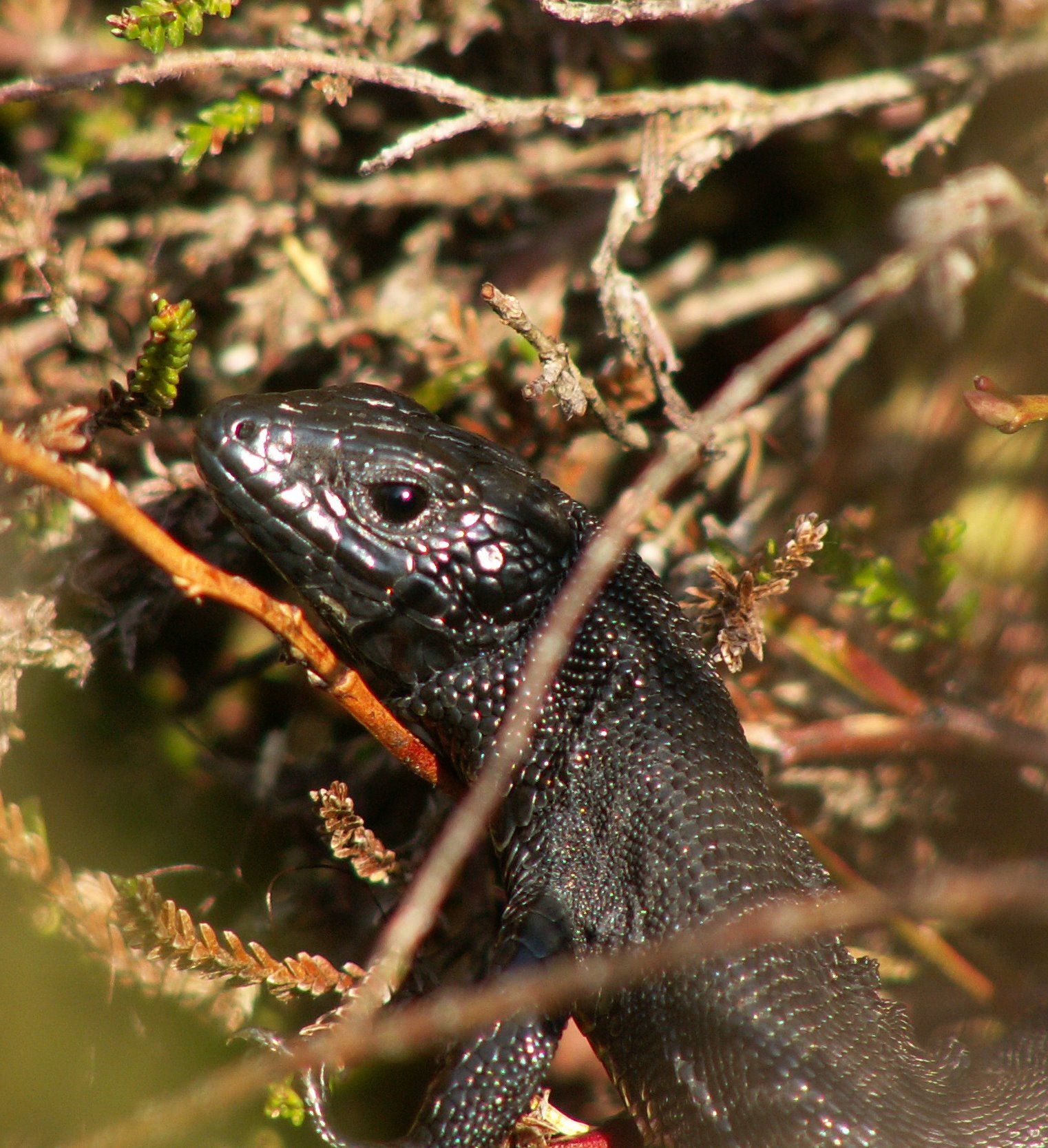 Melanistic Viviparous Lizard from heathland near Velp, The Netherlands